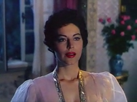 Screenshot of Ava Gardner from the trailer for the film The barefoot contessa.